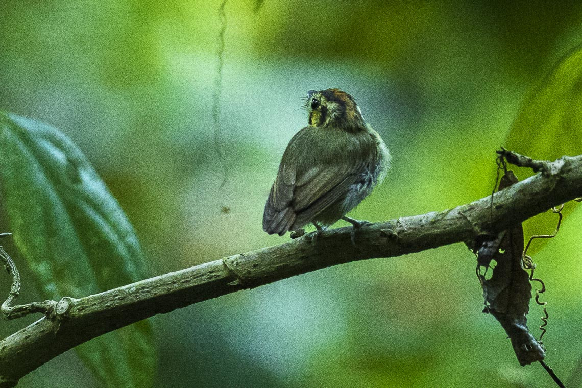 Golden-crowned Spadebill - Rio Tigre - Costa Rica_MG_7766